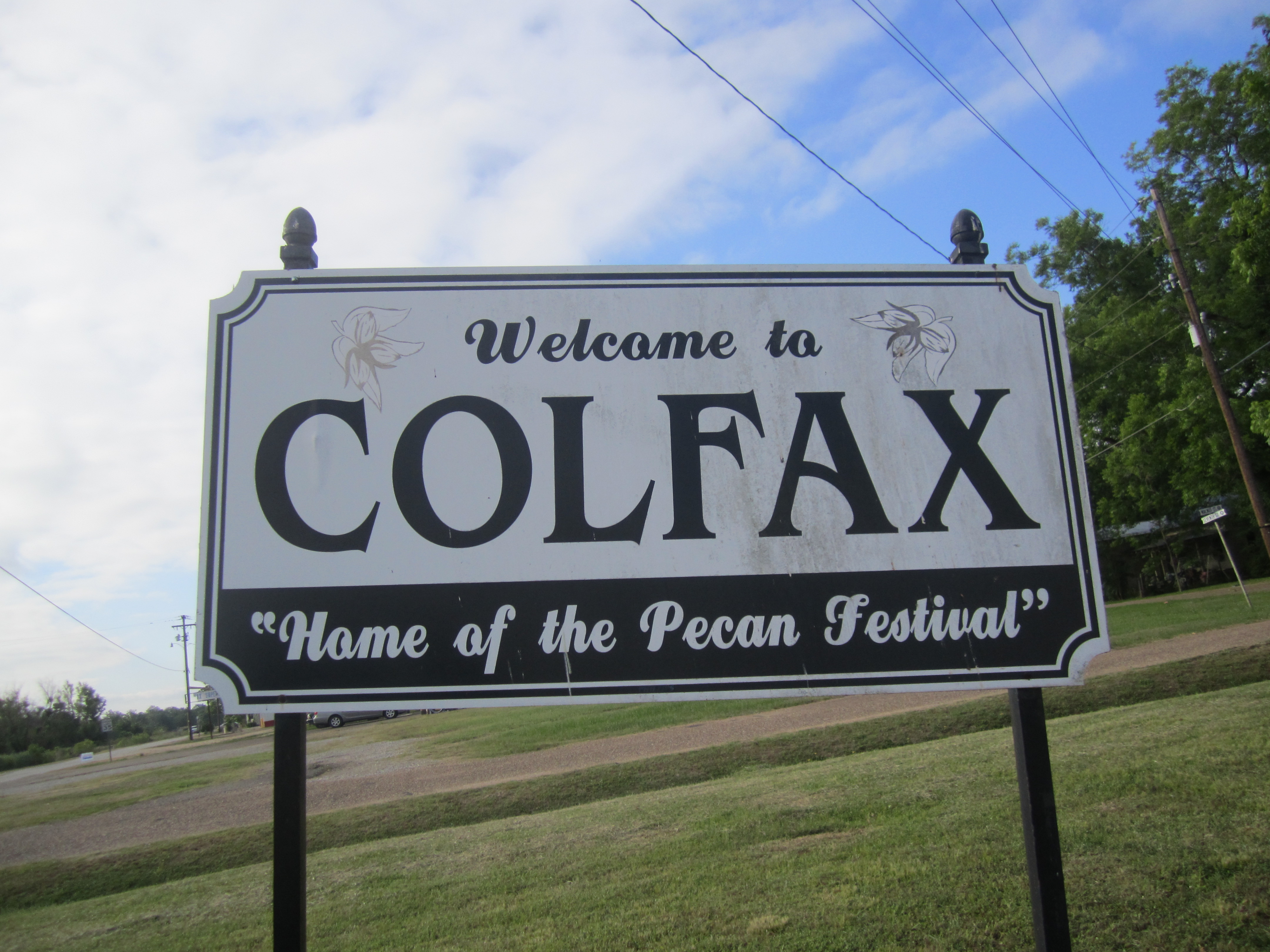 I took photo of Colfax, LA, sign with Canon camera.